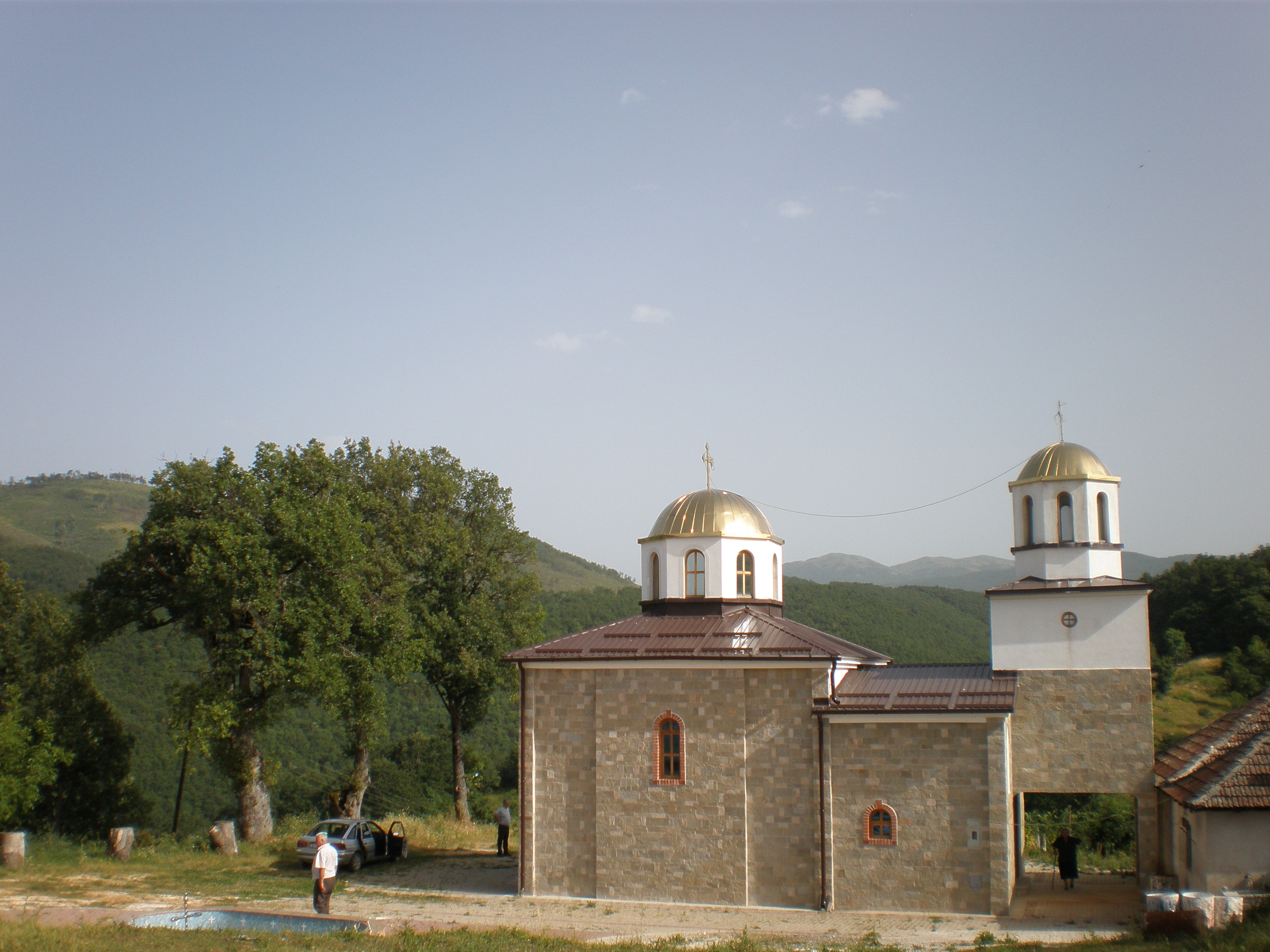 Church Saint Nicolas in the village of Sushica (Gostivar region), Macedonia